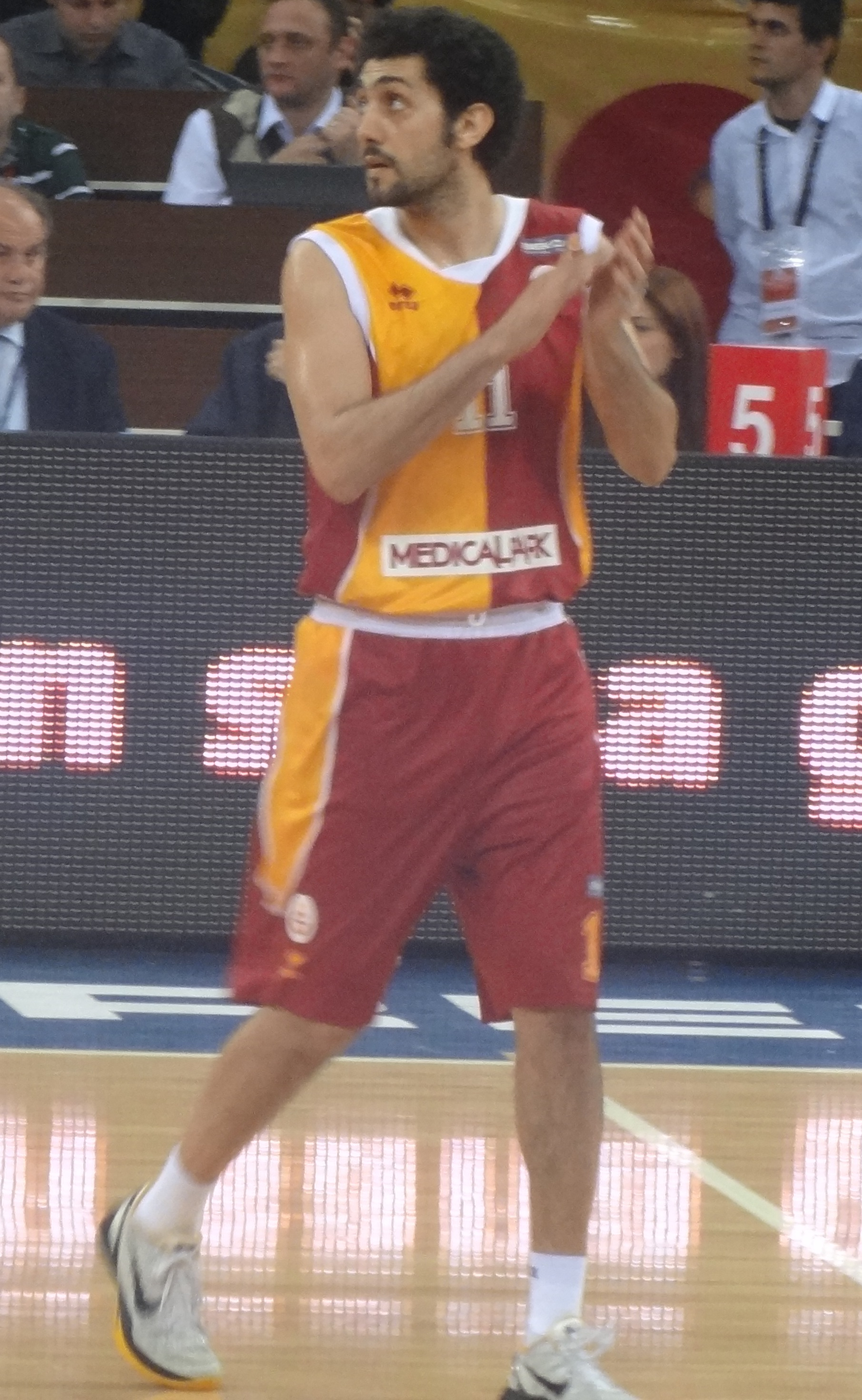 Galatasaray-Fenerbahce match